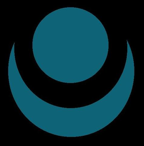 Crest of the House of Suren